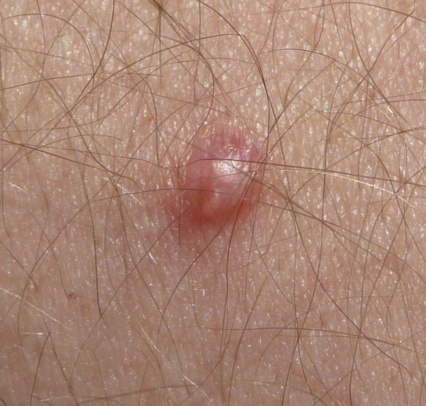 Papilloma. Human papillomavirus (HPV)